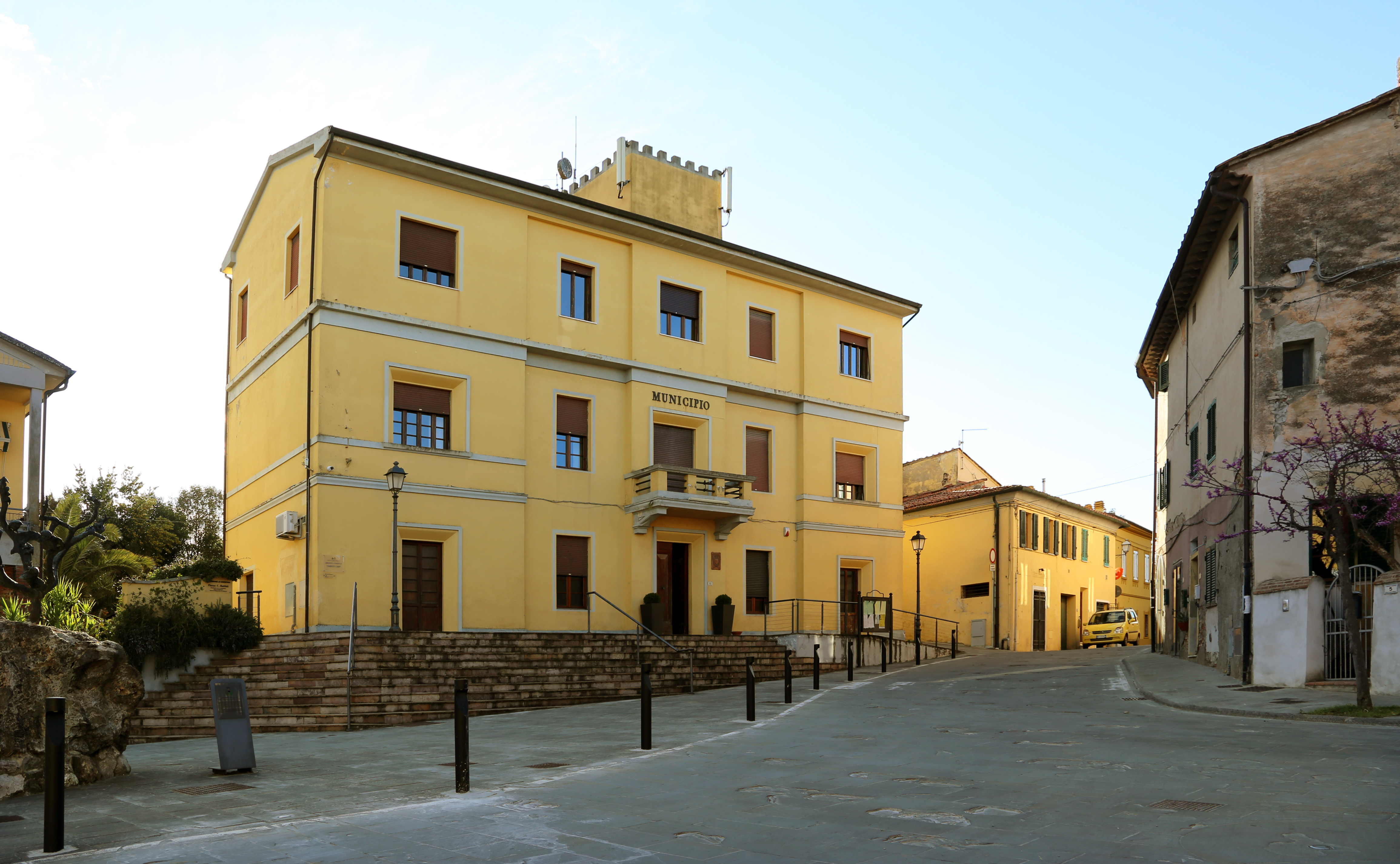 Buildings in Crespina Lorenzana